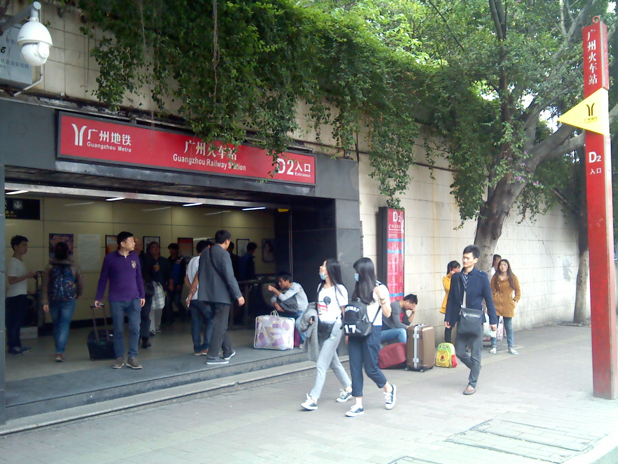 地铁广州火车站D2出入口